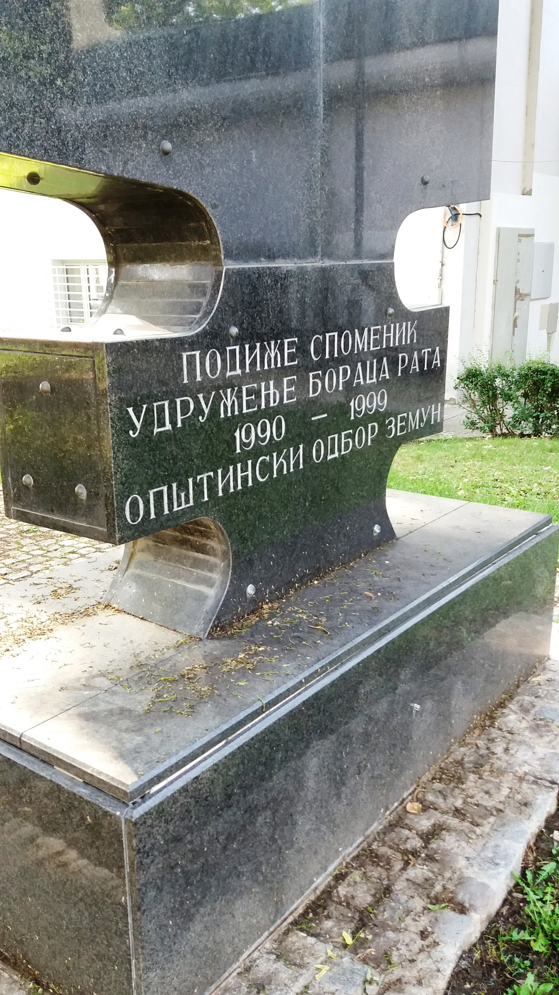 Monument to fallen soldiers in the wars of 1990-1999 in Zemun